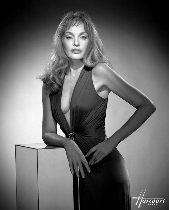 Arielle Dombasle photographed by Studio Harcourt Paris